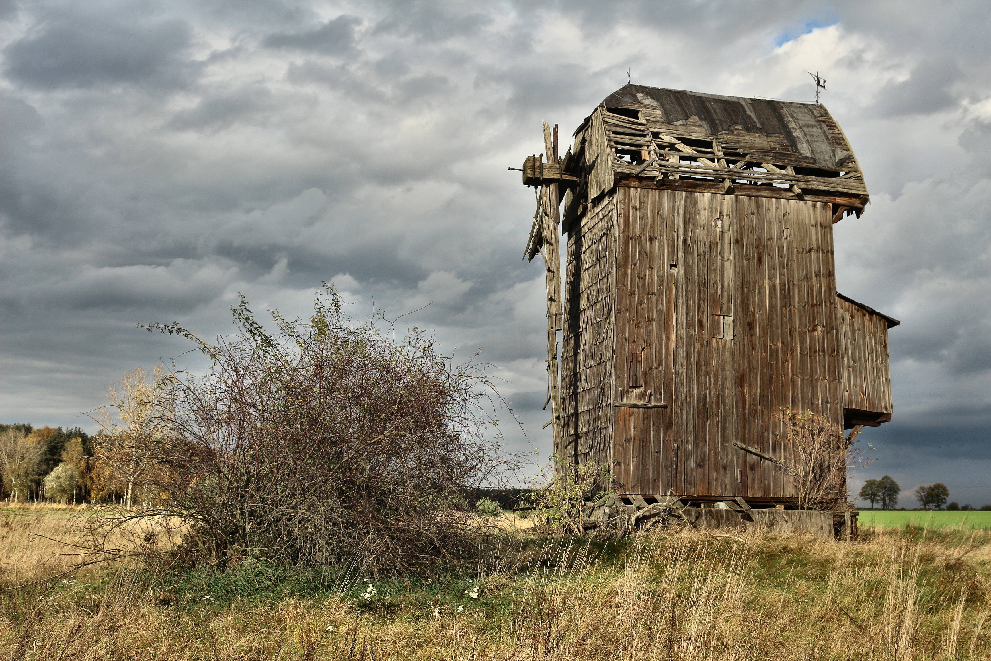 Windmill in Tylewice, Poland